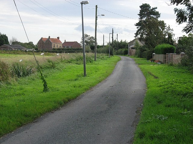 The Hamlet Of Hive, Hive, East Riding of Yorkshire, England.As seen from the road to Metham Grange.